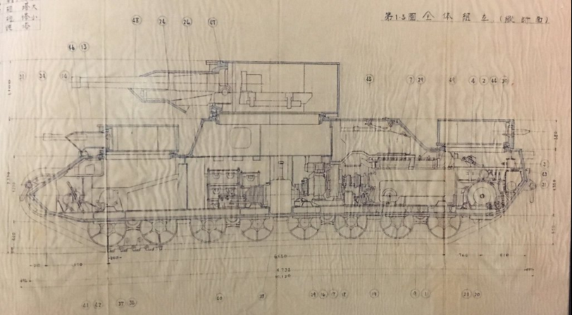 A schematic illustrating the interior side view of the O-I super heavy tank